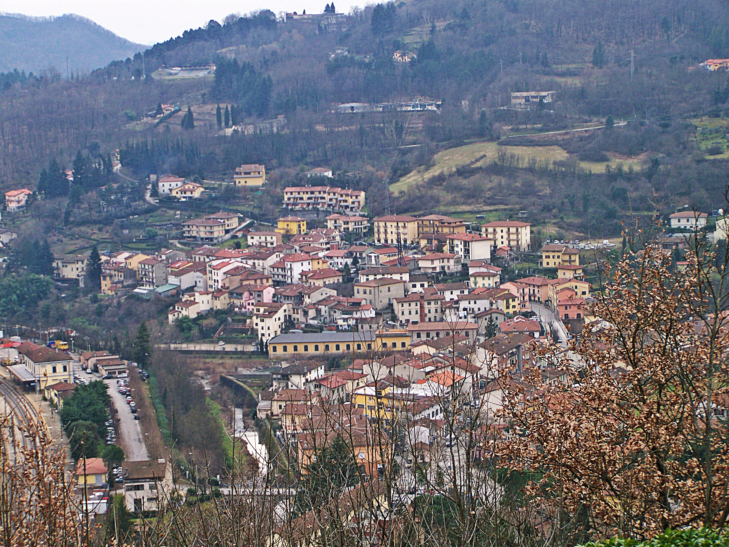 Mercatale